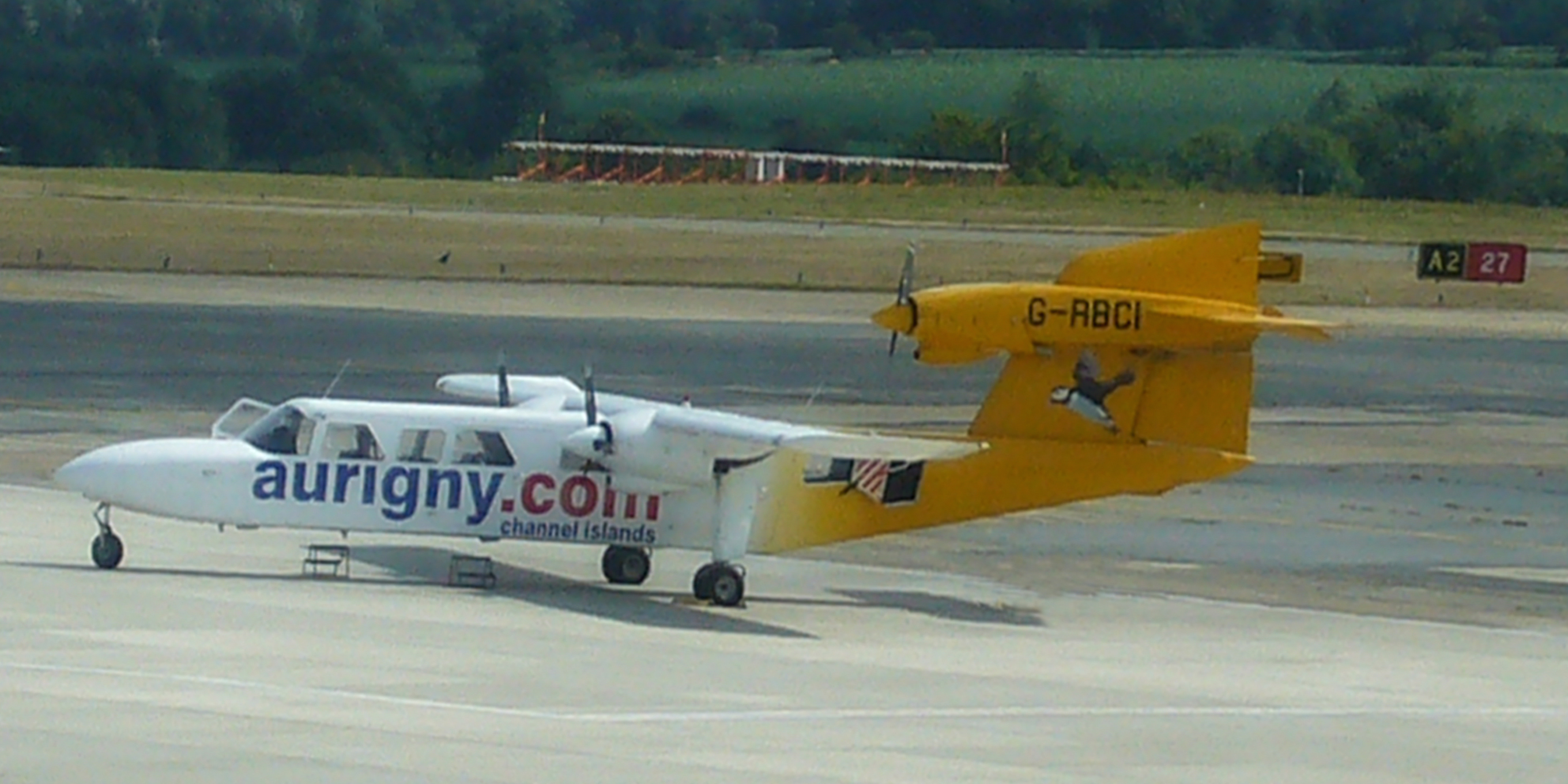 G-RBCI